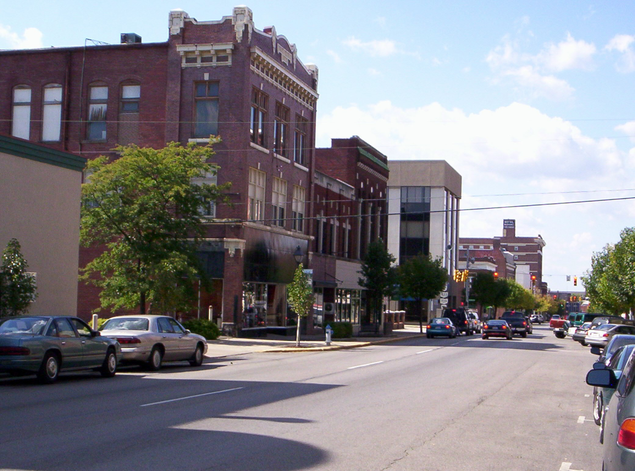 This photograph of downtown Marion, Ohio on West Center Street was taken by User OHWiki.